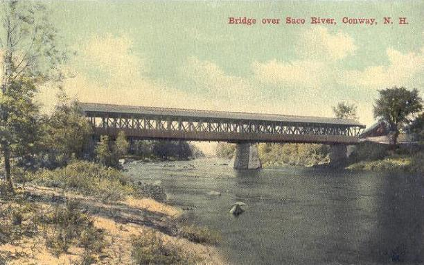 Bridge over Saco River, Conway, NH; from a 1911 postcard.